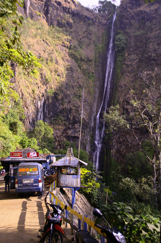 Waterfall Sedudo, Sawahan, Nganjuk, Jawa Timur